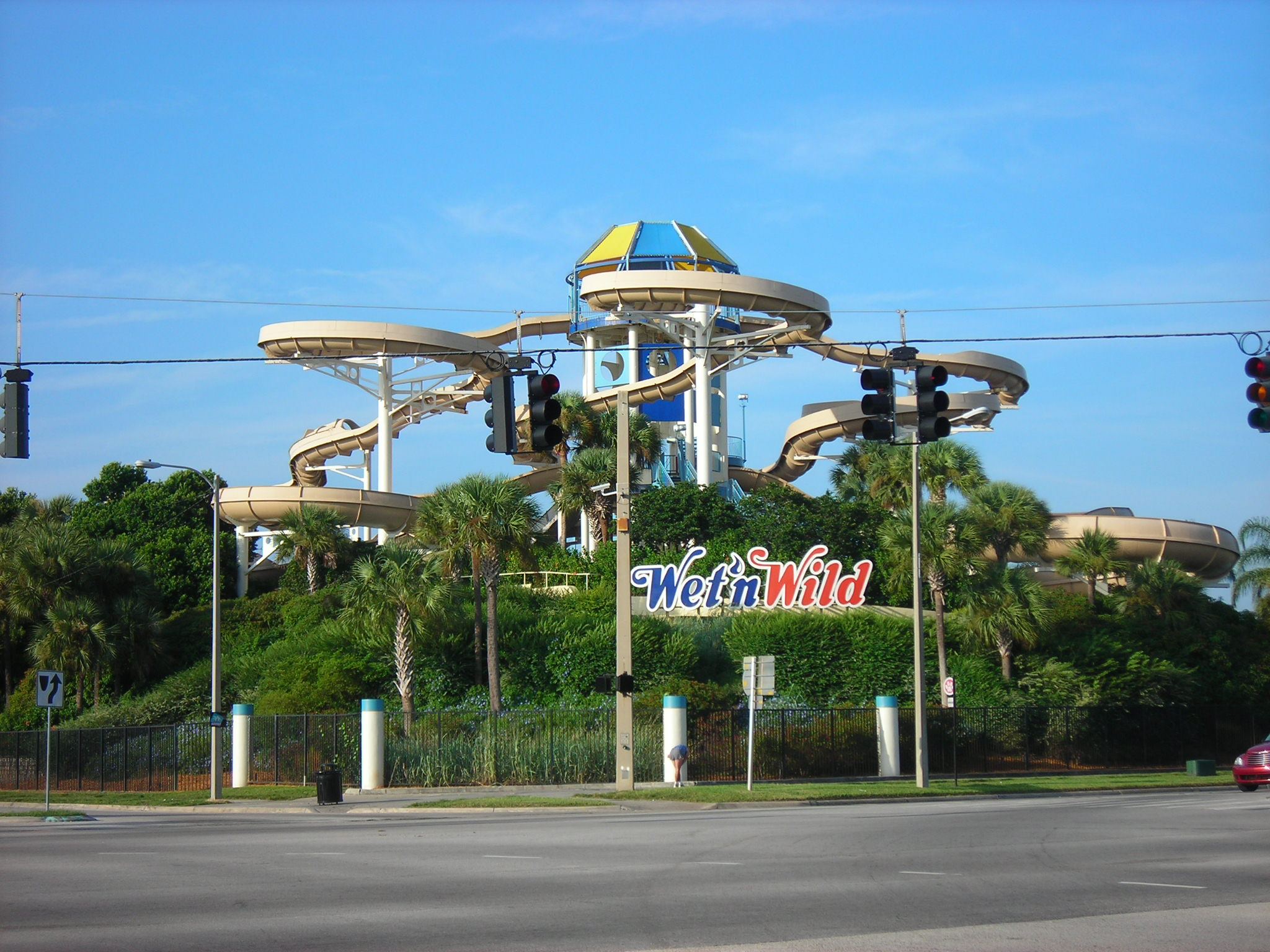 Wet and Wild, Orlando,FL